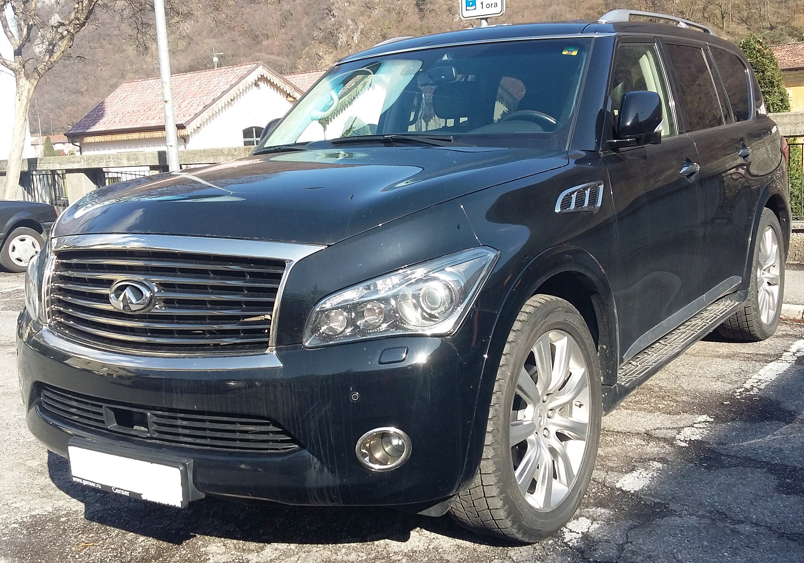 2010-present Infiniti QX56